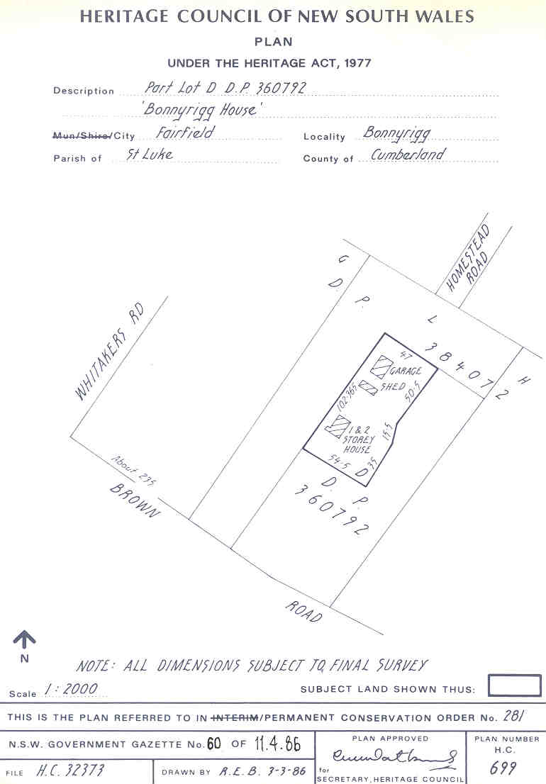 Bonnyrigg House: PCO Plan Number 281